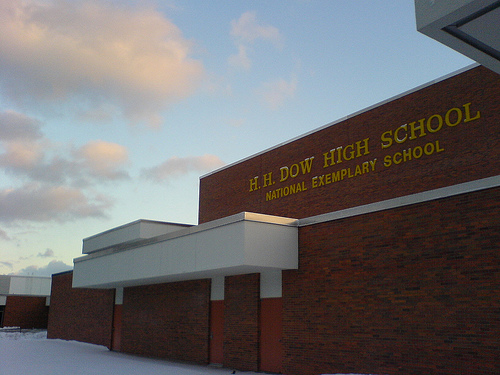 H.H. Dow High School. This is a picture taken of my school